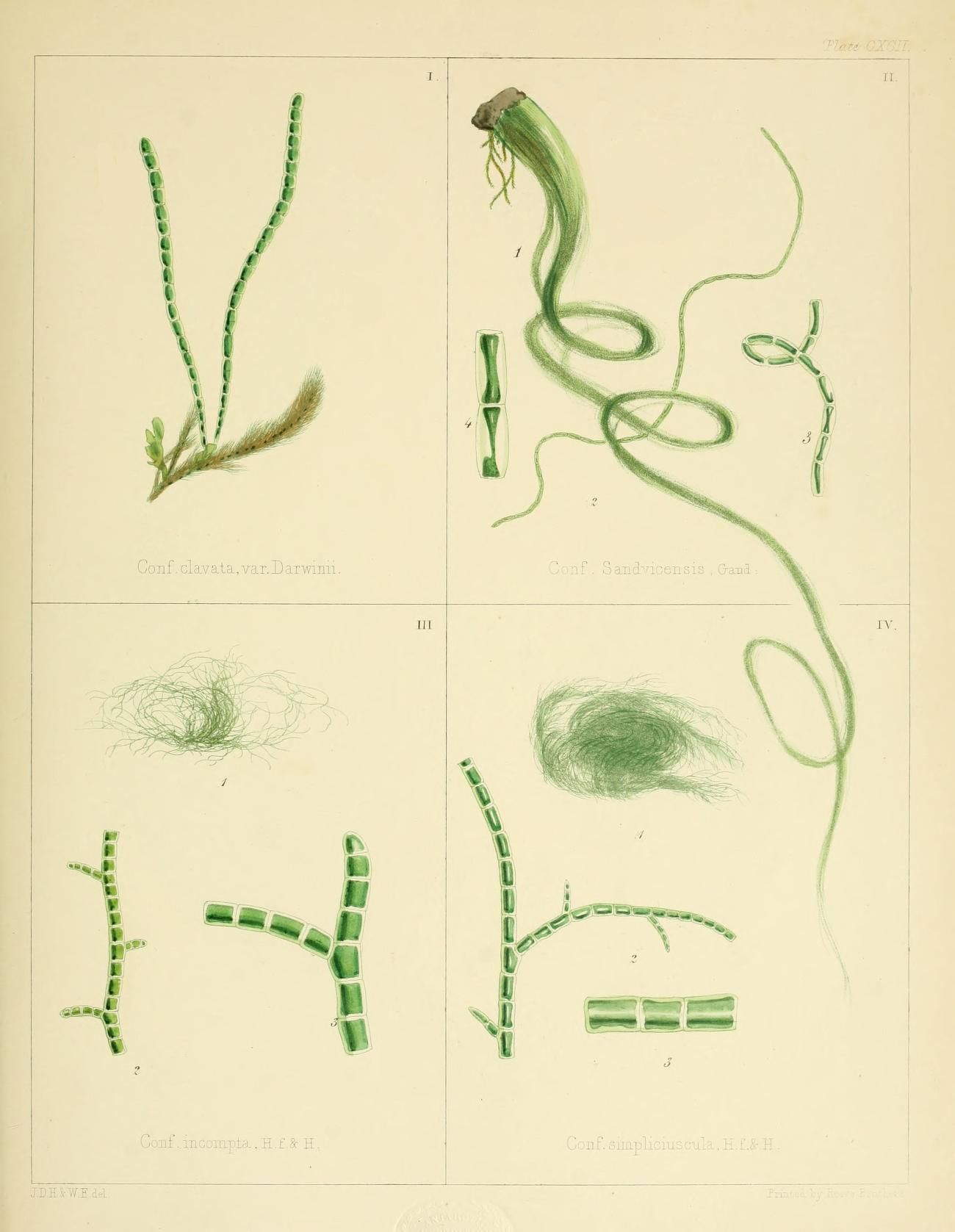 jpg of Plate CLXCII of Hooker's Flora Antarctica. Made up of four smaller images of various species of Chlorophyta. Fig I: Conferva clavata var. Darwinii; Fig II: Conferva Sandvicensis Gaud.; Fig III: Conferva incompta Hook. fil. et Harv.; Fig IV: Conferva simpliciuscula Hook. fil. et Harv.